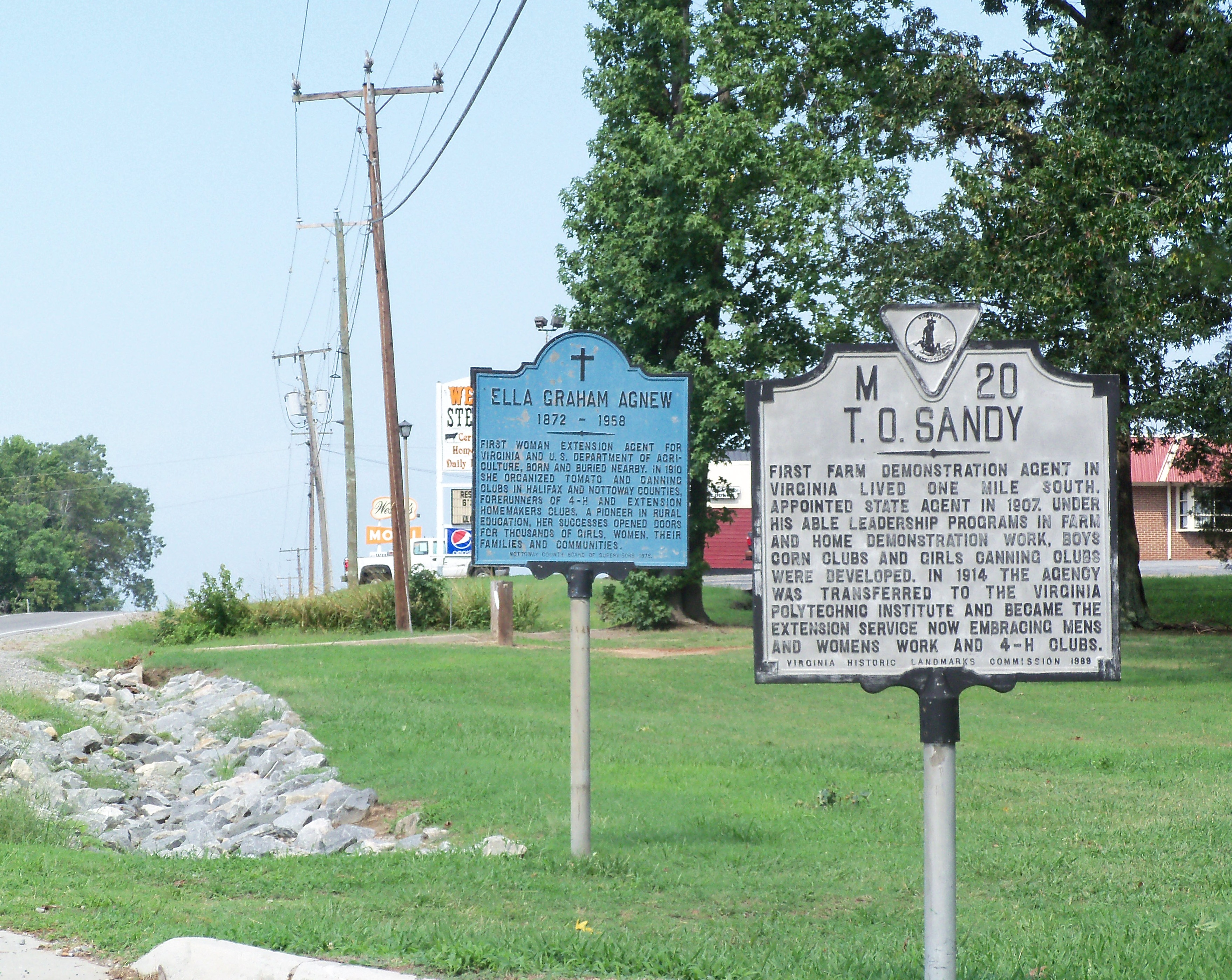 Ella Graham Agnew and T.O. Sandy Historical Markers